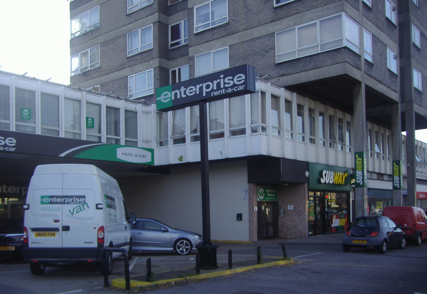 Enterprise Rent a Car Hanworth